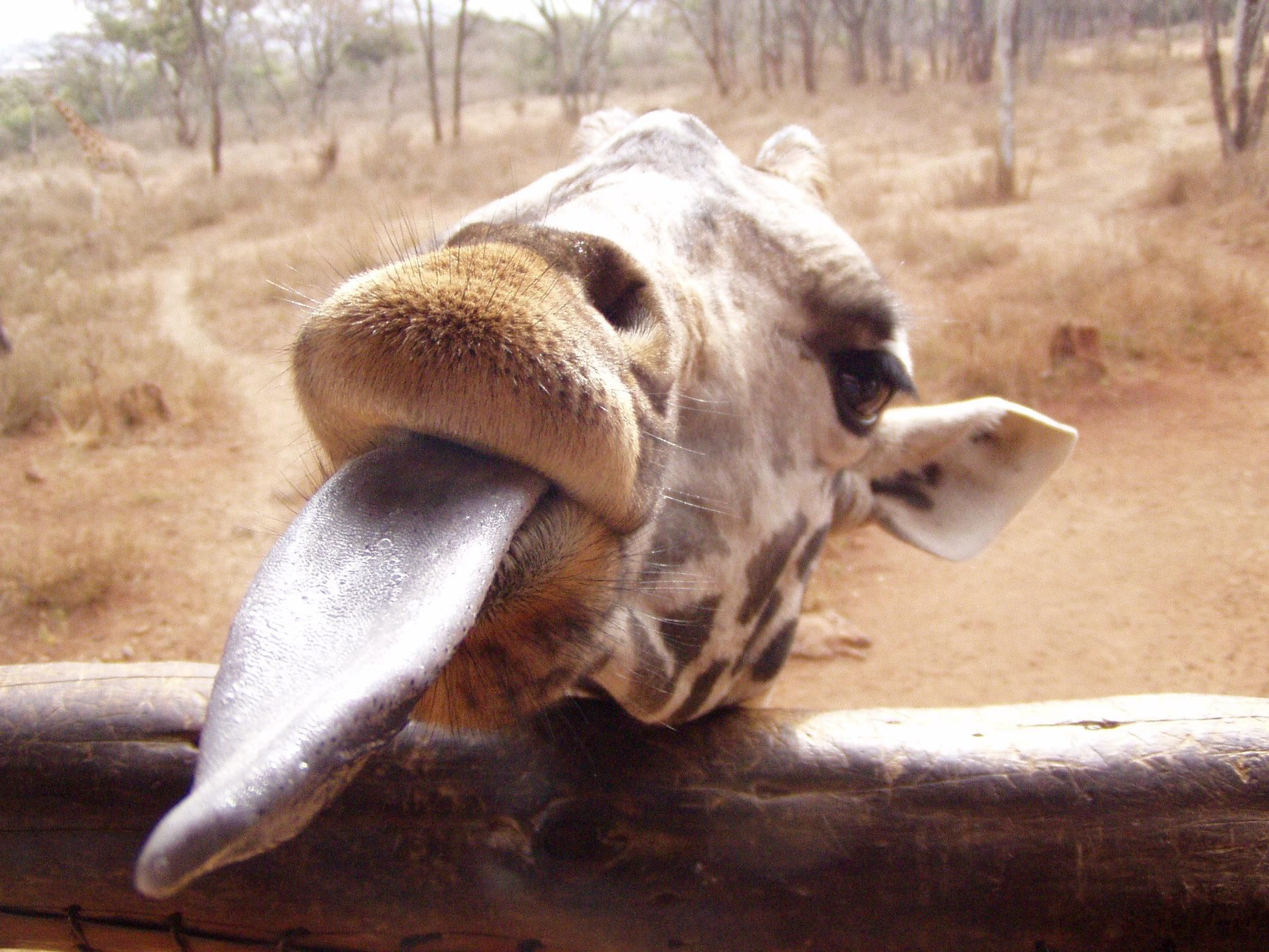 Image title: Giraffe animal head Image from Public domain images website